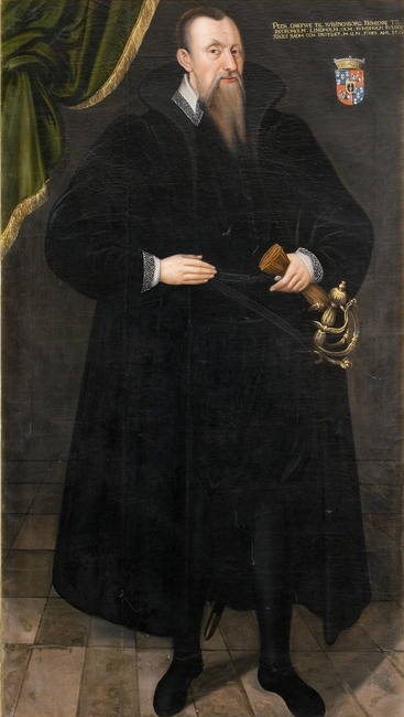 Per Brahe the Elder (1520–1590), Swedish count and member of the Privy Council of Sweden.